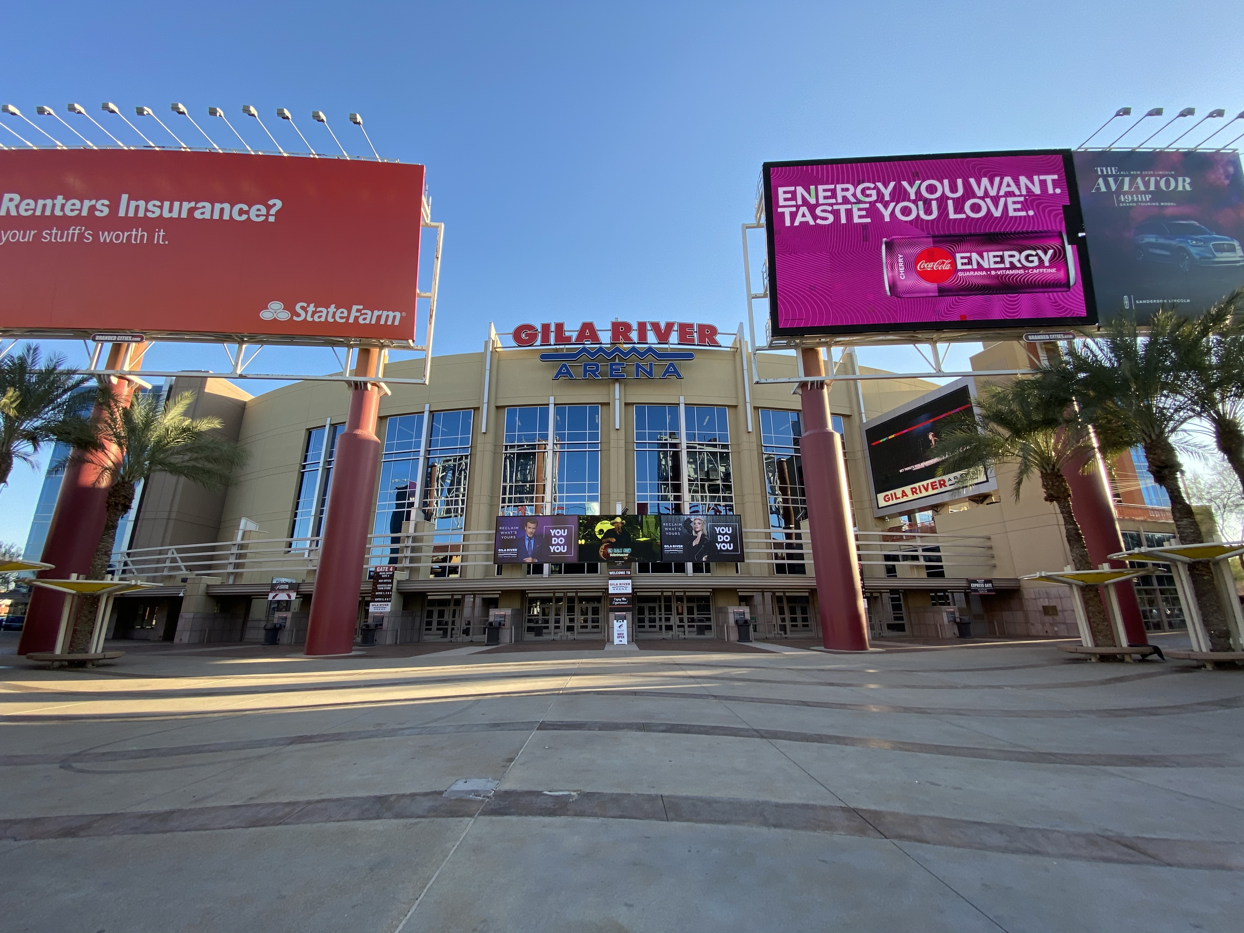 Gate 4 main entrance to Gila River Arena, home to the Arizona Coyotes